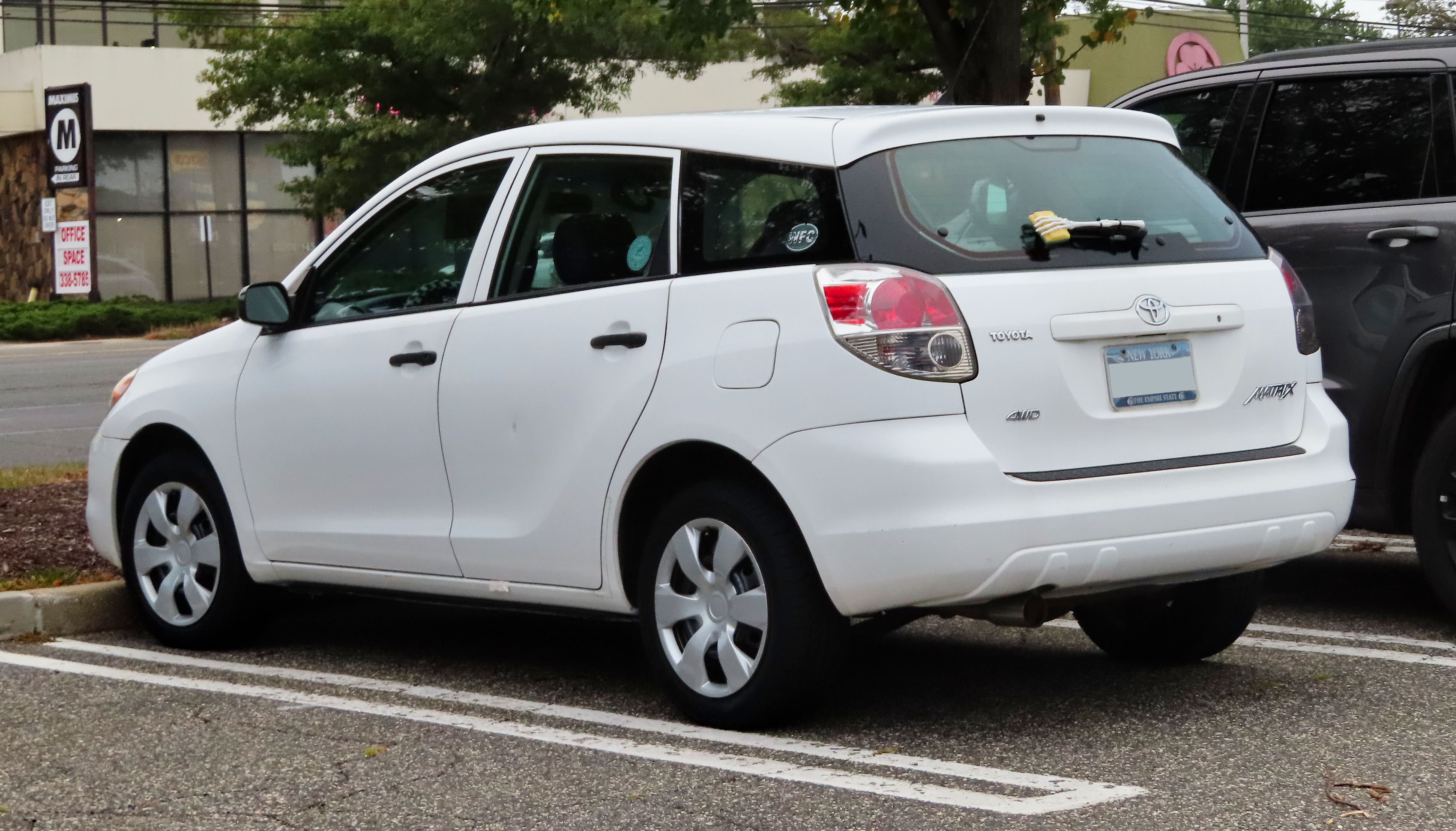 A 2006 Toyota Matrix photographed in College Point, Queens, New York, USA